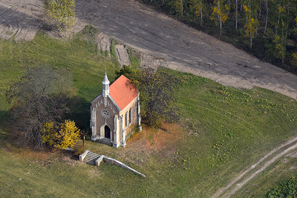 Lórév, Zichy kápolna - légi fotó